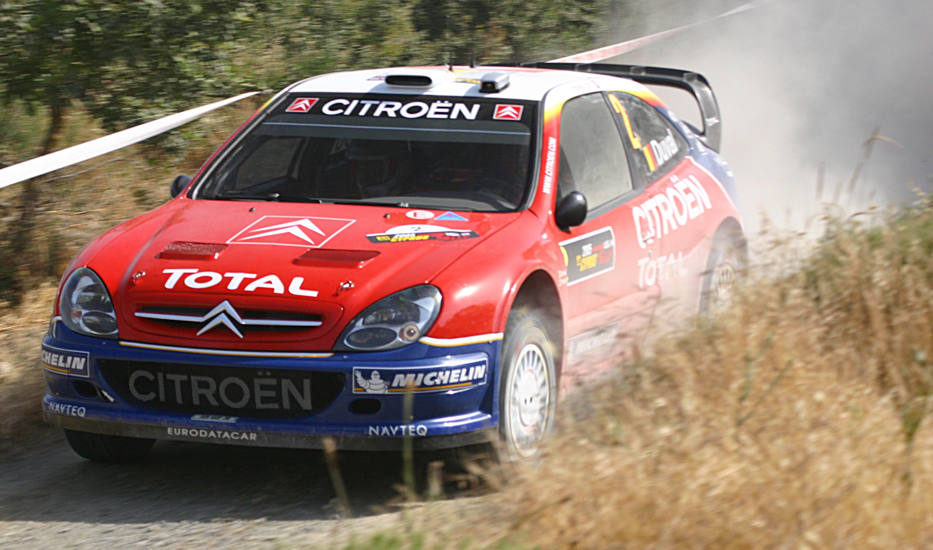 François Duval driving his Citroën Xsara WRC at the 2005 Cyprus Rally.